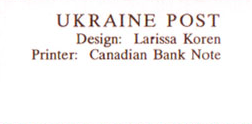 Stamps of Ukraine, 1992